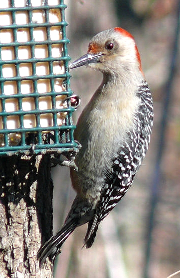 Cut from Image:Red-bellied Woodpecker-27527-2.jpg (A female Red-bellied Woodpecker (Melanerpes carolinus) enjoying dinner from a block of suet and nuts in a woodpecker feeder. Photo taken with a Panasonic Lumix DMC-FZ50 in Johnston County, North Carolina, USA. )